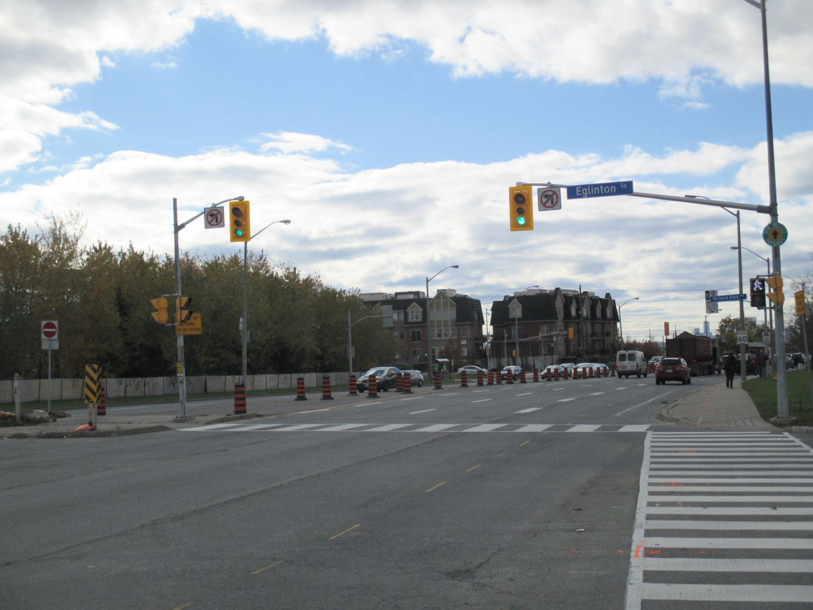 Site of future the O'Connor stop on Line 5 Eglinton looking westbound from Eglinton Square along Eglinton Avenue East